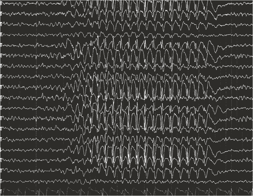 The EEG signature of absence epilepsy is the generalized 3 Hz spike-wave discharge.